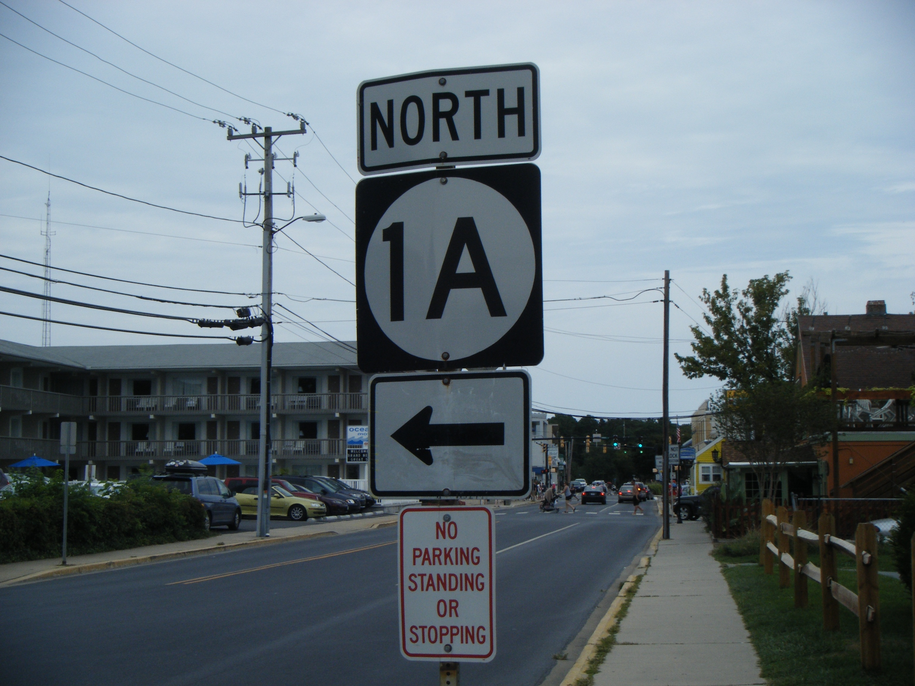 Shield for northbound Delaware Route 1A where the route turns from Bayard Avenue onto Christian Street in Rehoboth Beach.